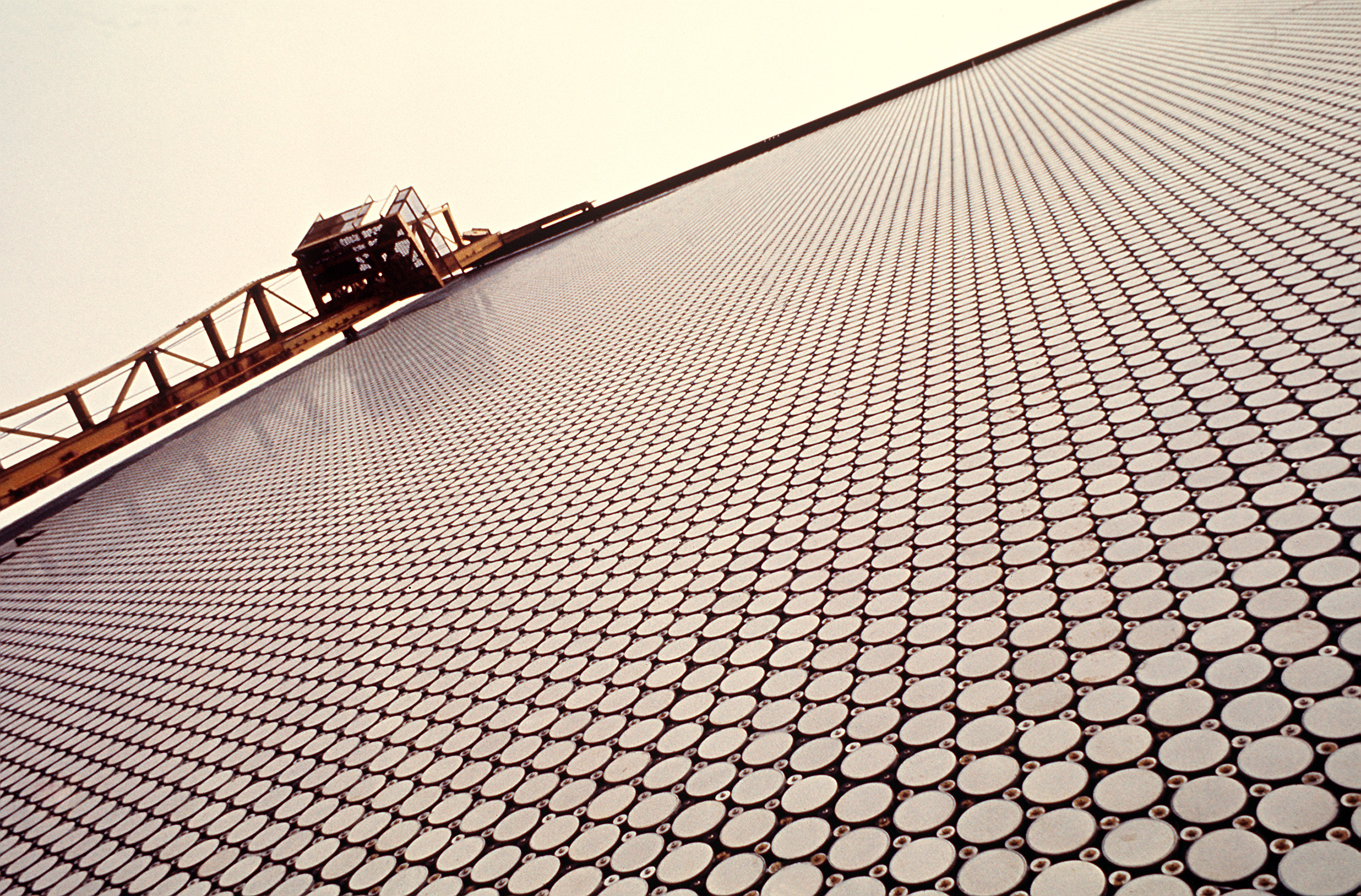 The face of the COBRA DANE phased-array radar system which contains 34,000 antennas, each measuring 5 inches in diameter. This intelligence gathering device was specially constructed to monitor Soviet ballistic missile testing on Siberia's Kamchatka Peninsula.